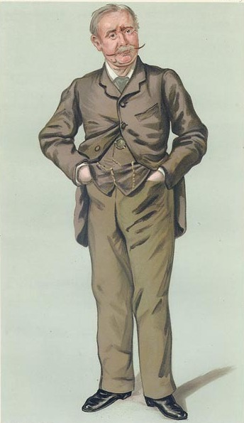 Caricature of Captain Henry Montague Hozier (1838-1907). Caption read "Lloyds".